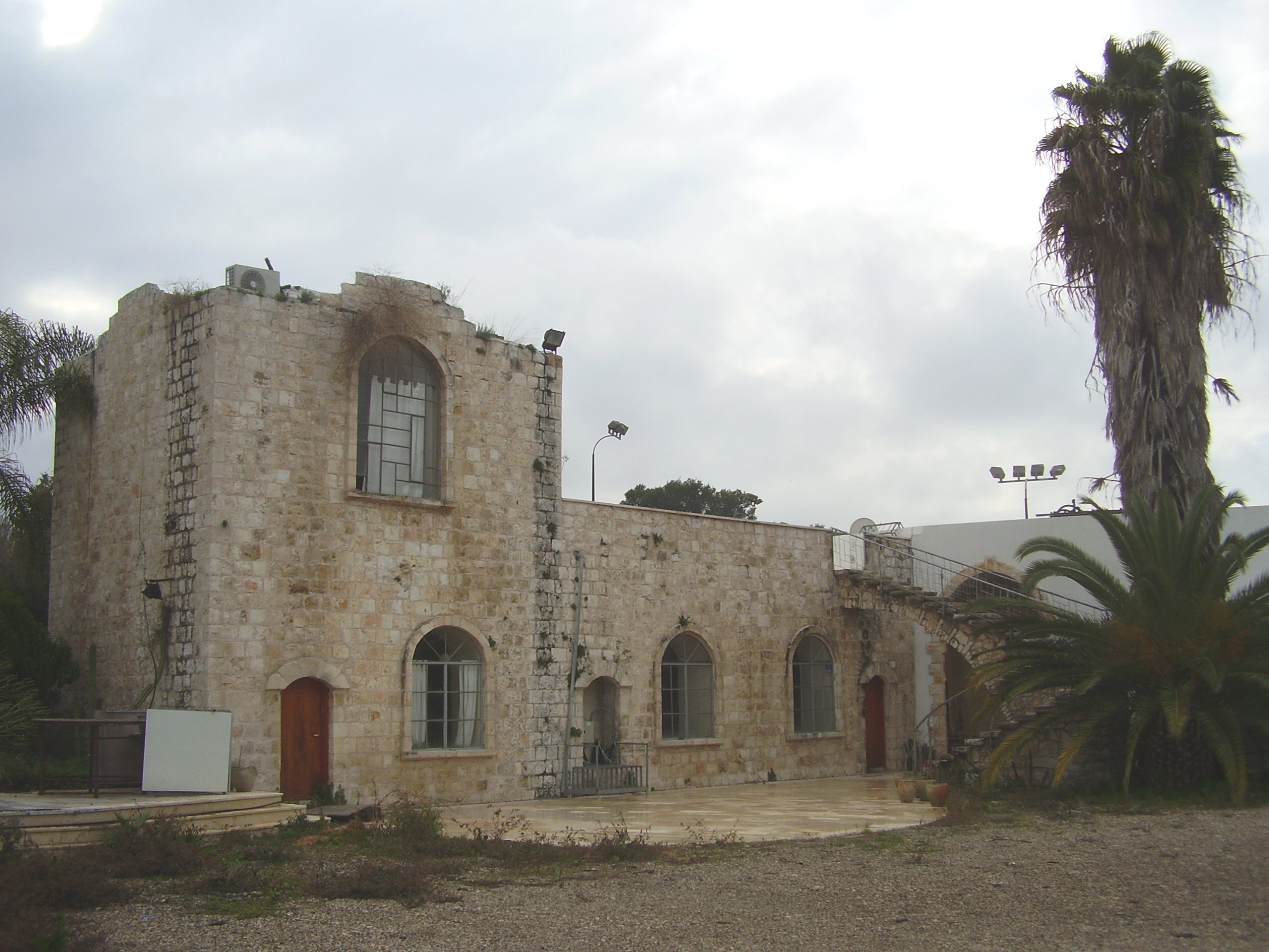 An old arab house at Kibbutz Barkai, Israel